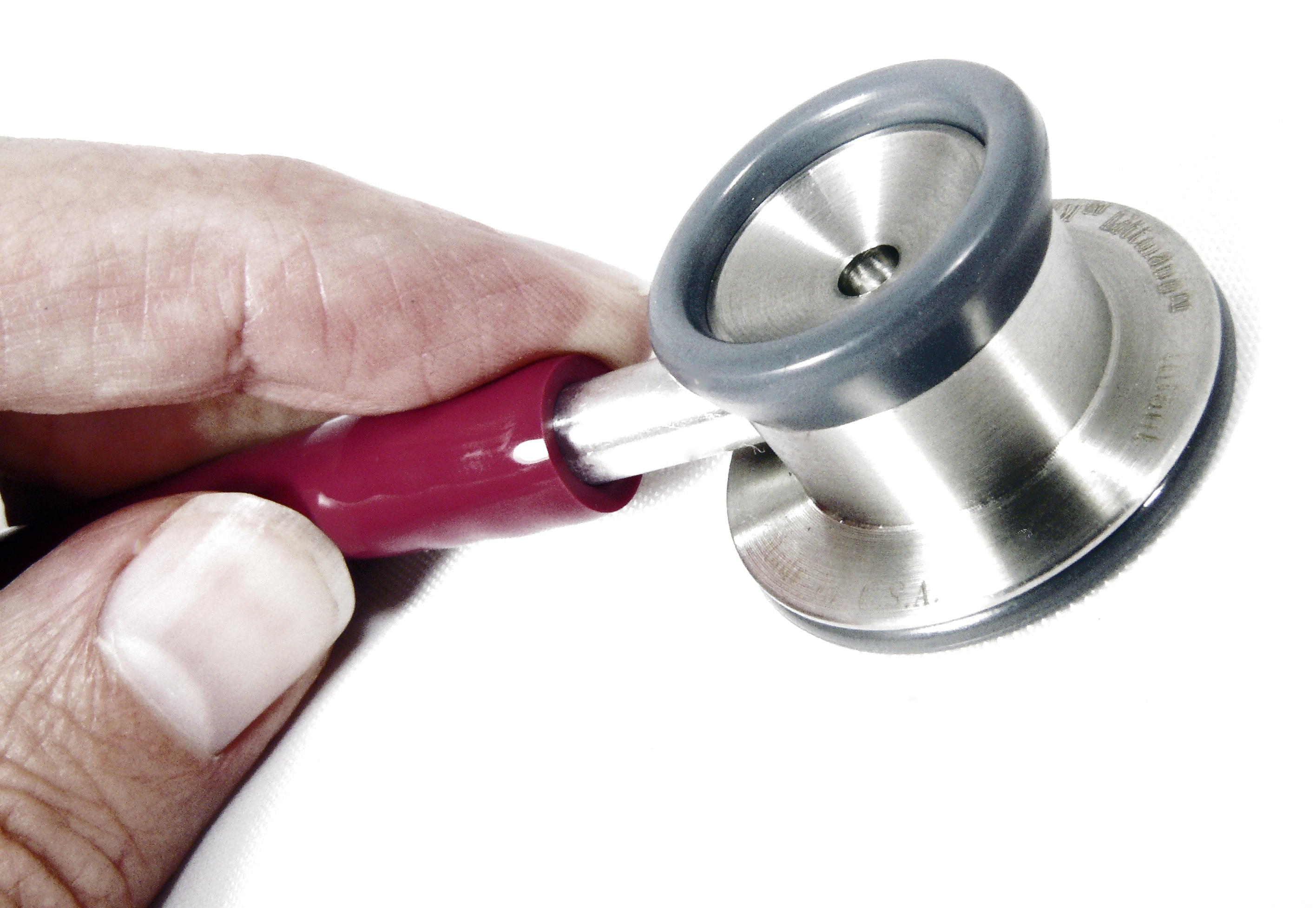 A stethoscope and partial hand.